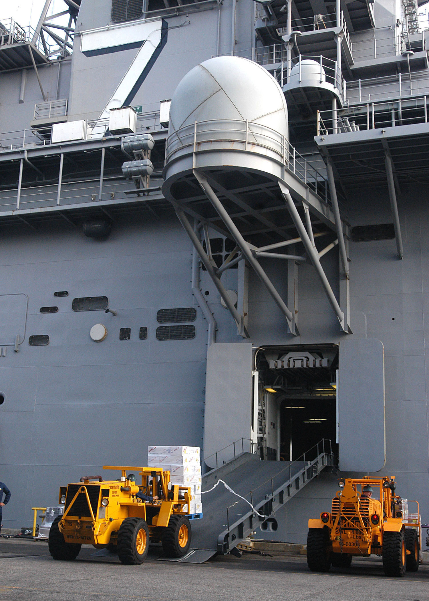 Norfolk, Va. (Aug. 31, 2005) - Fork trucks from the amphibious assault ship USS Iwo Jima (LHD 7) load stores from the pier to the ship prior to getting underway from Naval Station Norfolk. Iwo Jima and three other Hampton Roads-based amphibious ships will get underway today to head to areas off the Gulf Coast as part of the Hurricane Katrina relief effort. The four ships bring with them six Disaster Relief Teams (DRTs) that include amphibious construction equipment, medical personnel and associated supplies to assist with the relief effort. The Navy's involvement in the humanitarian assistance operations led by the Federal Emergency Management Agency (FEMA) in conjunction with the Department of Defense. U.S. Navy photo by Photographer's Mate 1st Class Gregory A. Roberts (RELEASED)